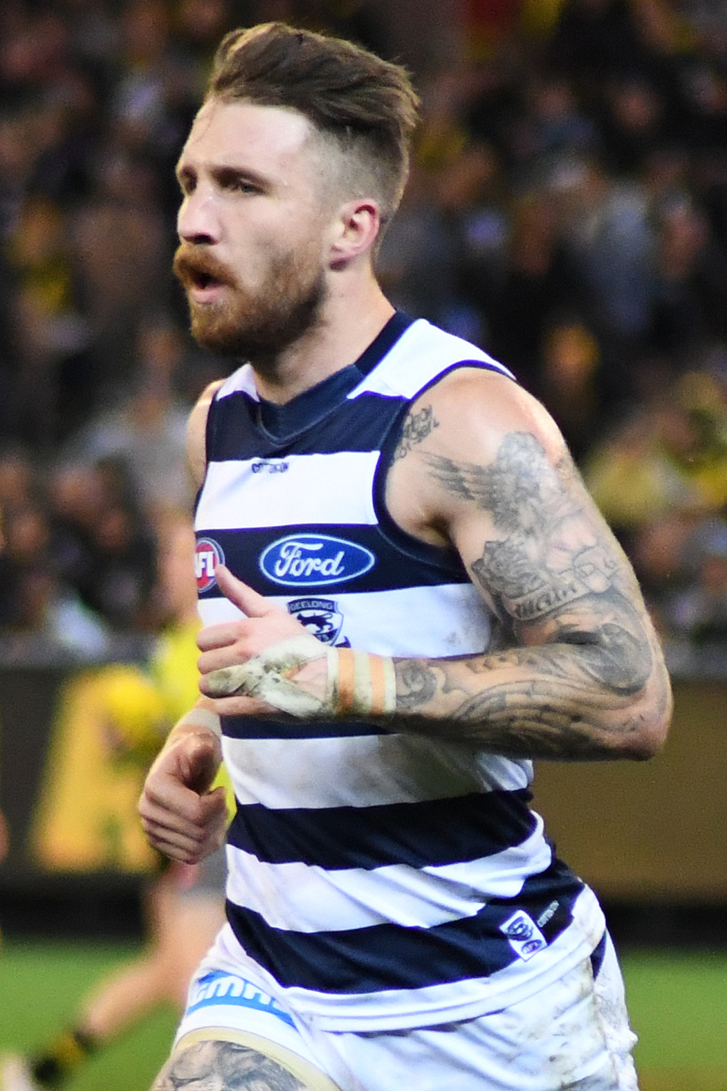 Zach Tuohy of Geelong during the 2018 AFL round 20 match between Richmond and Geelong at the Melbourne Cricket Ground on Friday, 3 August 2018 in Melbourne, Victoria.